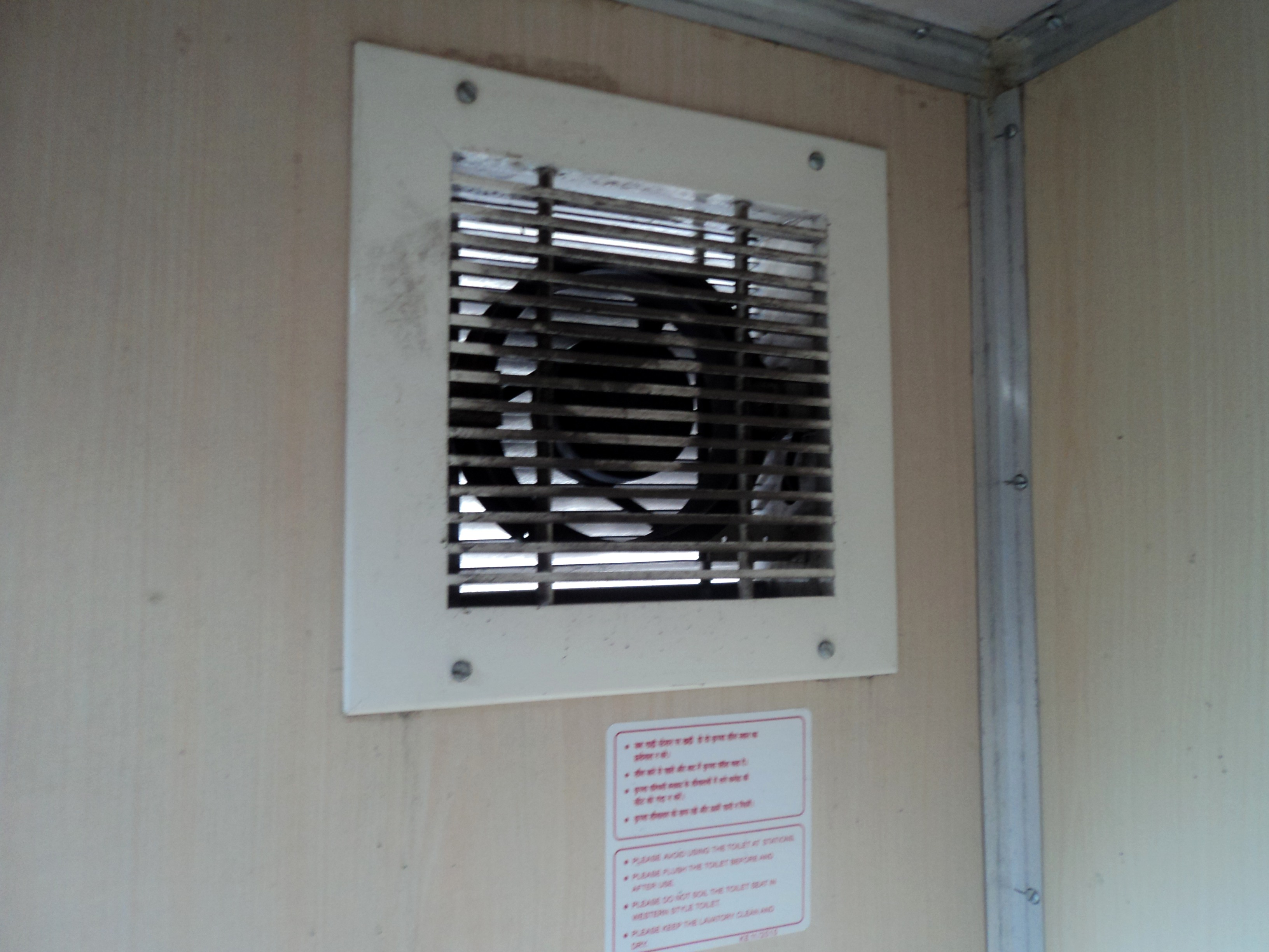 the train no:11014(lokmania tilak) train's A/c coach toilet on november-2011